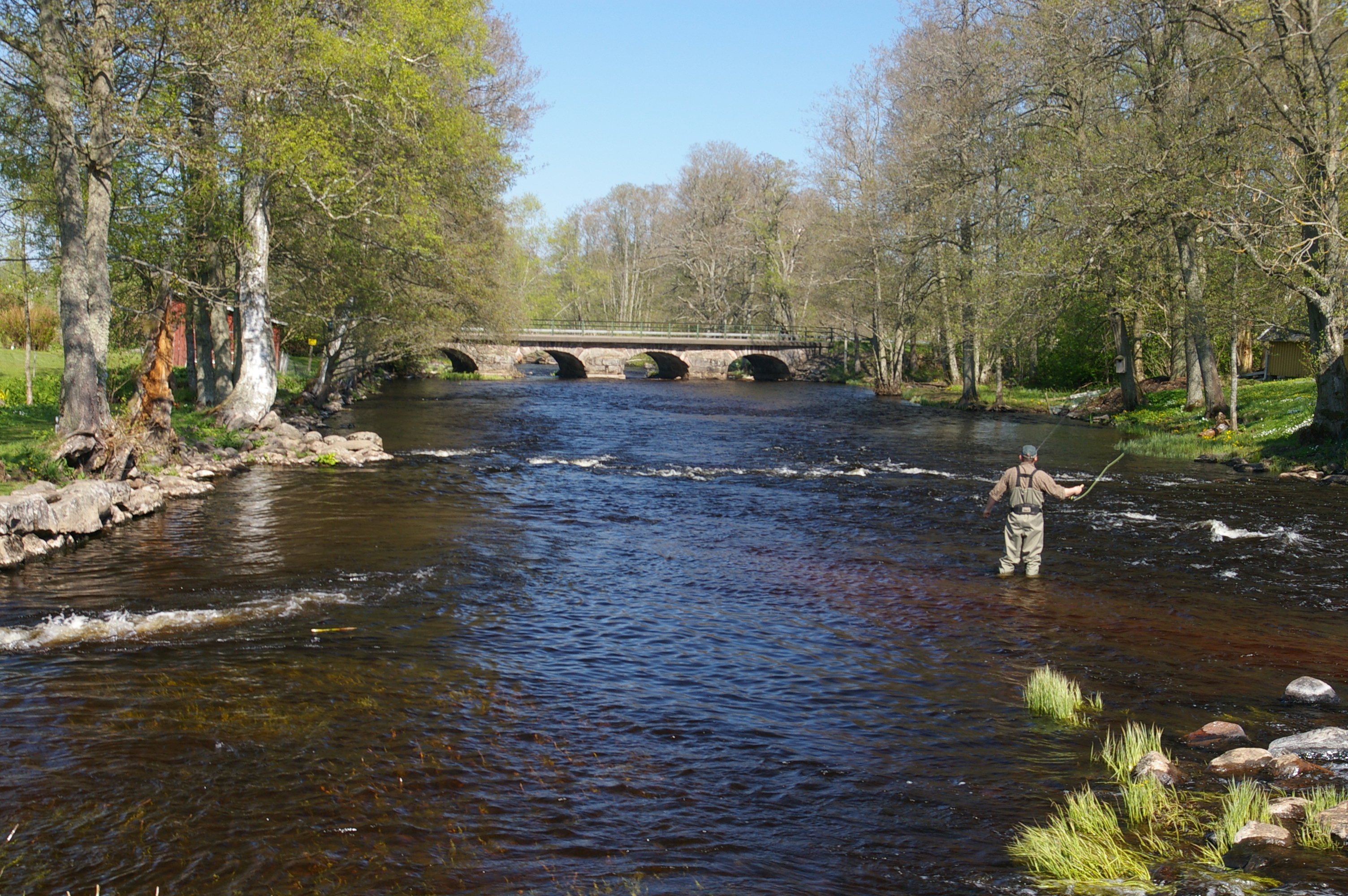 Baltak in Västergötland, Sweden by the river Tidan.